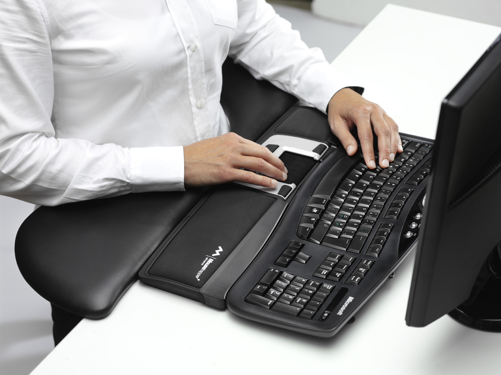 Mousetrapper trackball